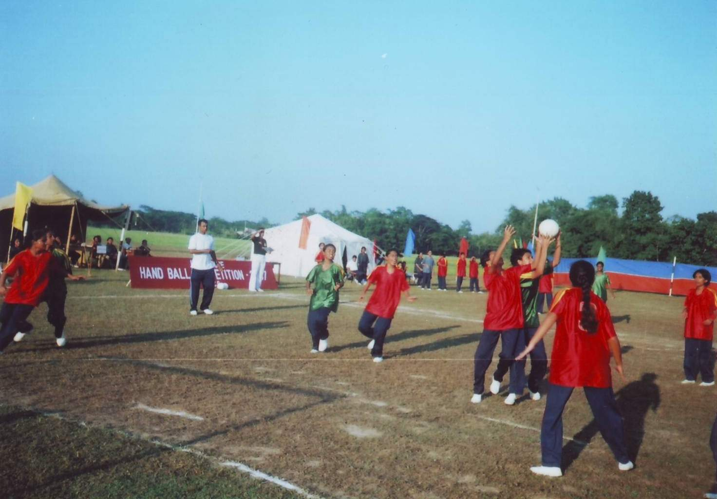 hand ball match